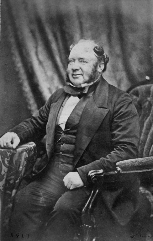 Photograph of Mr. Dow, Montreal, QC, copied 1862 by William Notman (1826-1891). Silver salts on paper mounted on paper - Albumen process, 8.5 x 5.6 cm